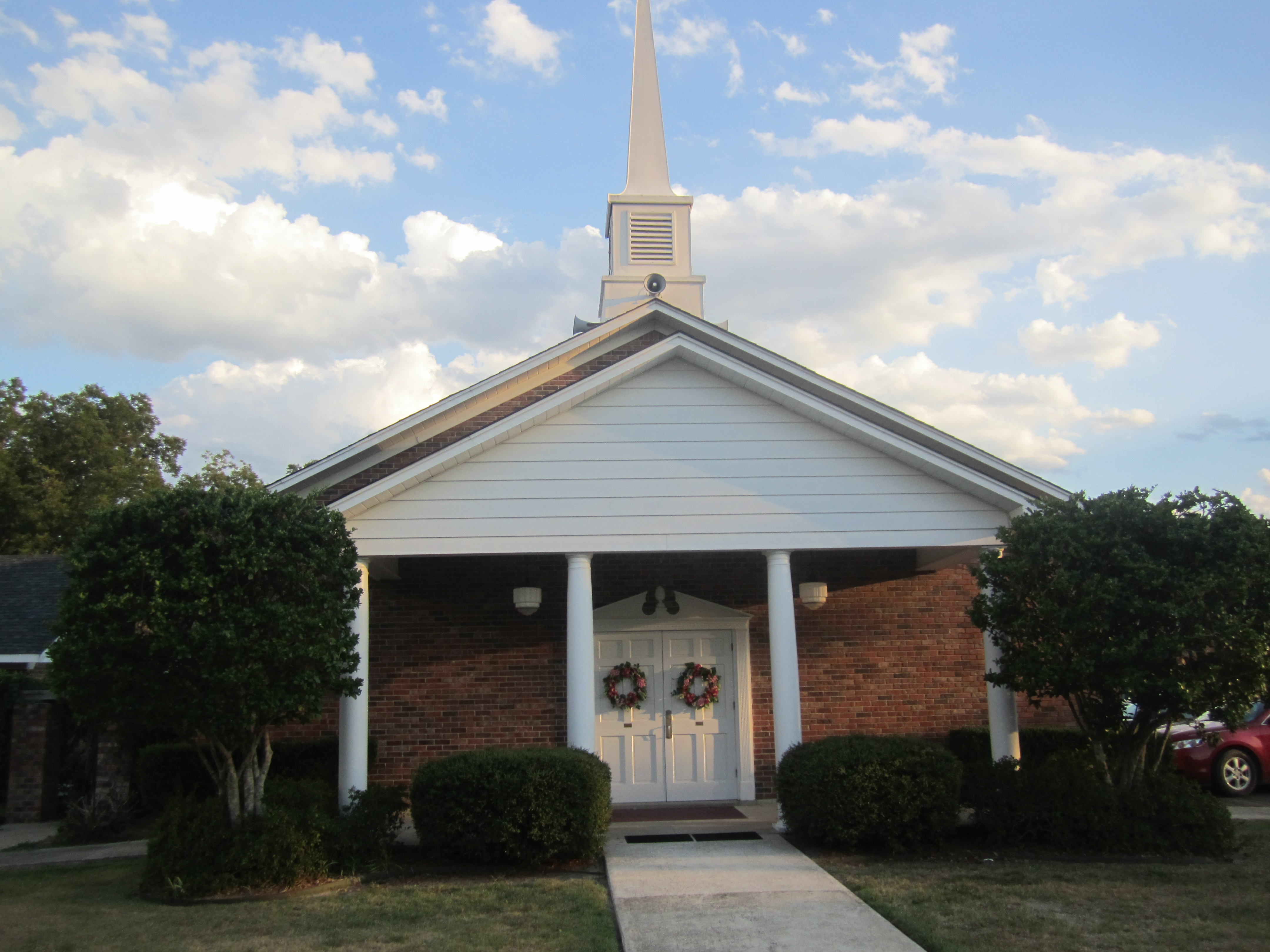 I took photo of Heflin Baptist Church in Heflin, LA, with Canon camera.